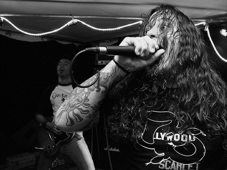 US metalcore musical group Zao live in Karlsruhe, Germany 10.09.2004. Vocalist Daniel Weyandt on front.